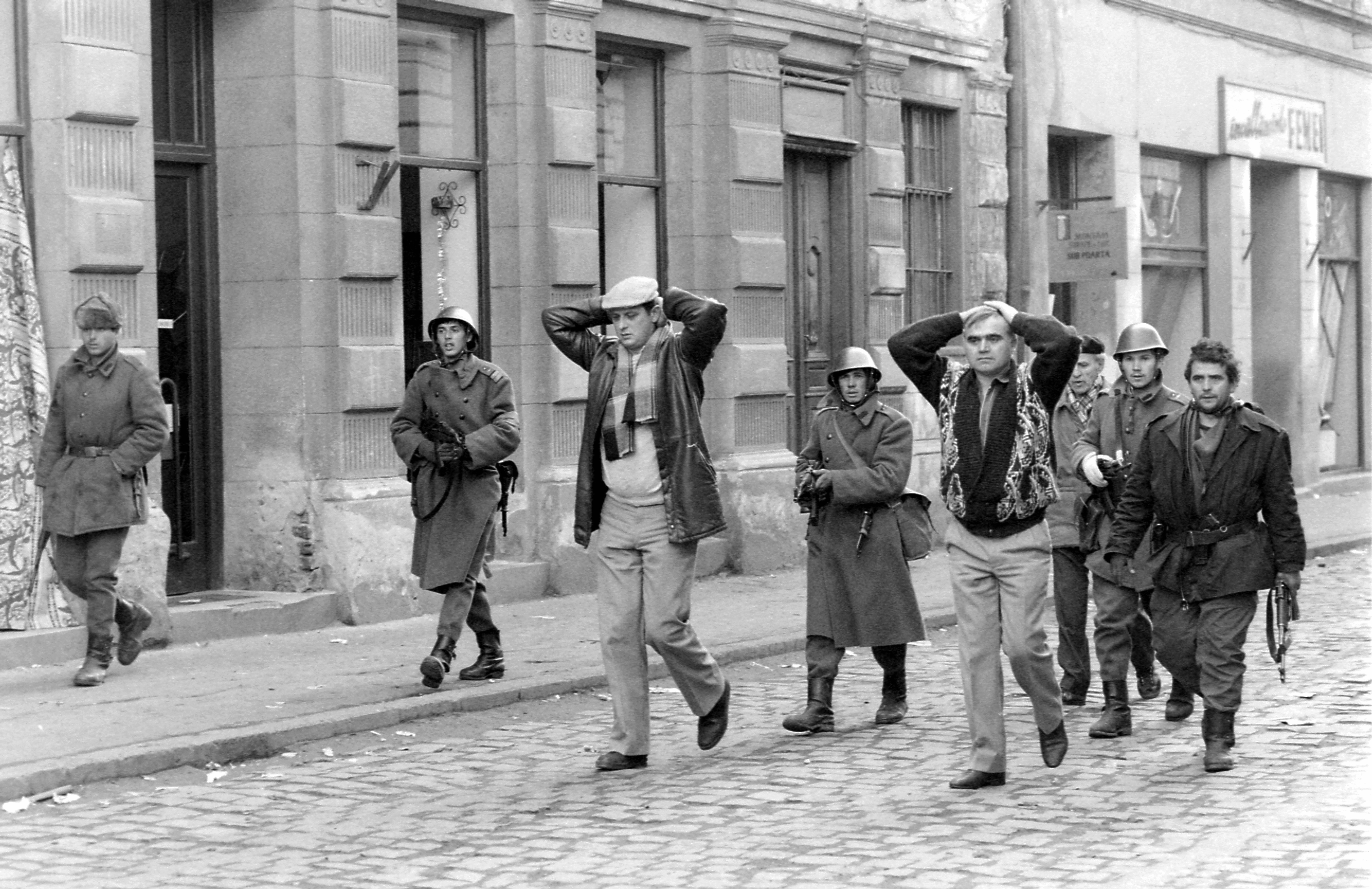 Location: Romania, Transylvania, Timisoara Tags: soldier, men, uniform, weapon, street view, prisoners